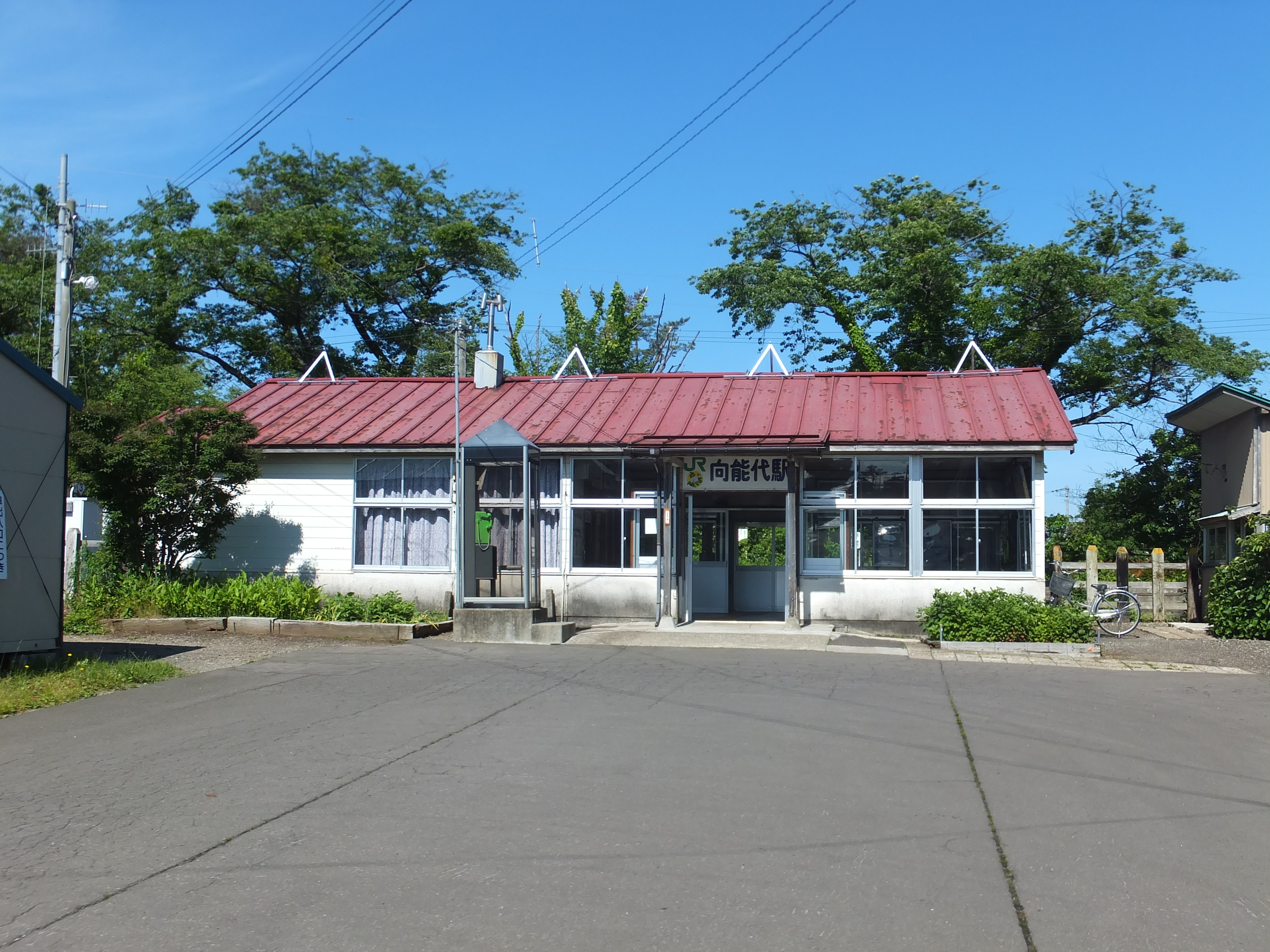 Mukainoshiro Station on the Gonō Line, in Noshiro City, Akita, Japan